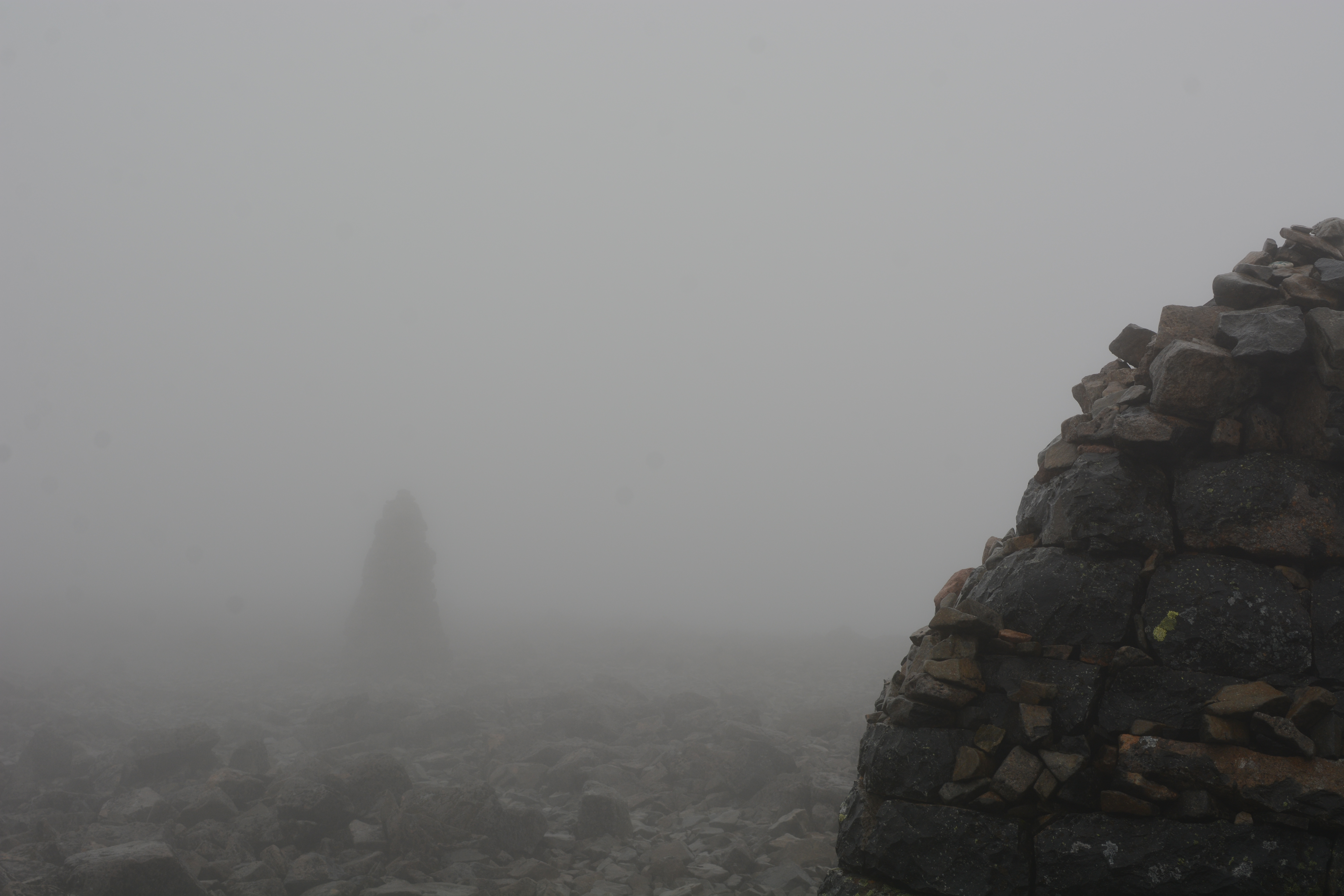 Navigational cairn on the Ben Nevis plateau seen from the summit ruins in thick fog, 50-75m away